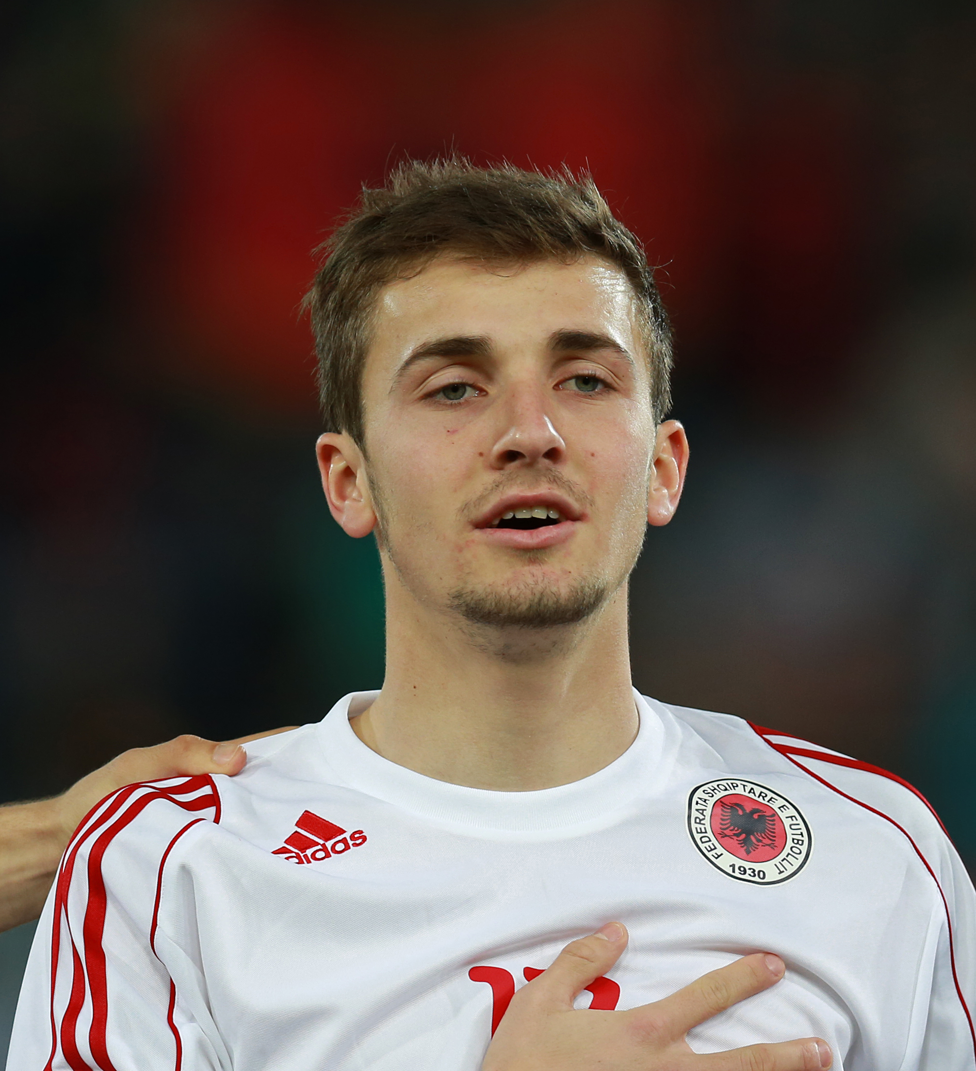 Enis Gavazaj at national under-21 football game Albania vs. Austria in Graz, UPC Arena, 5. March 2014